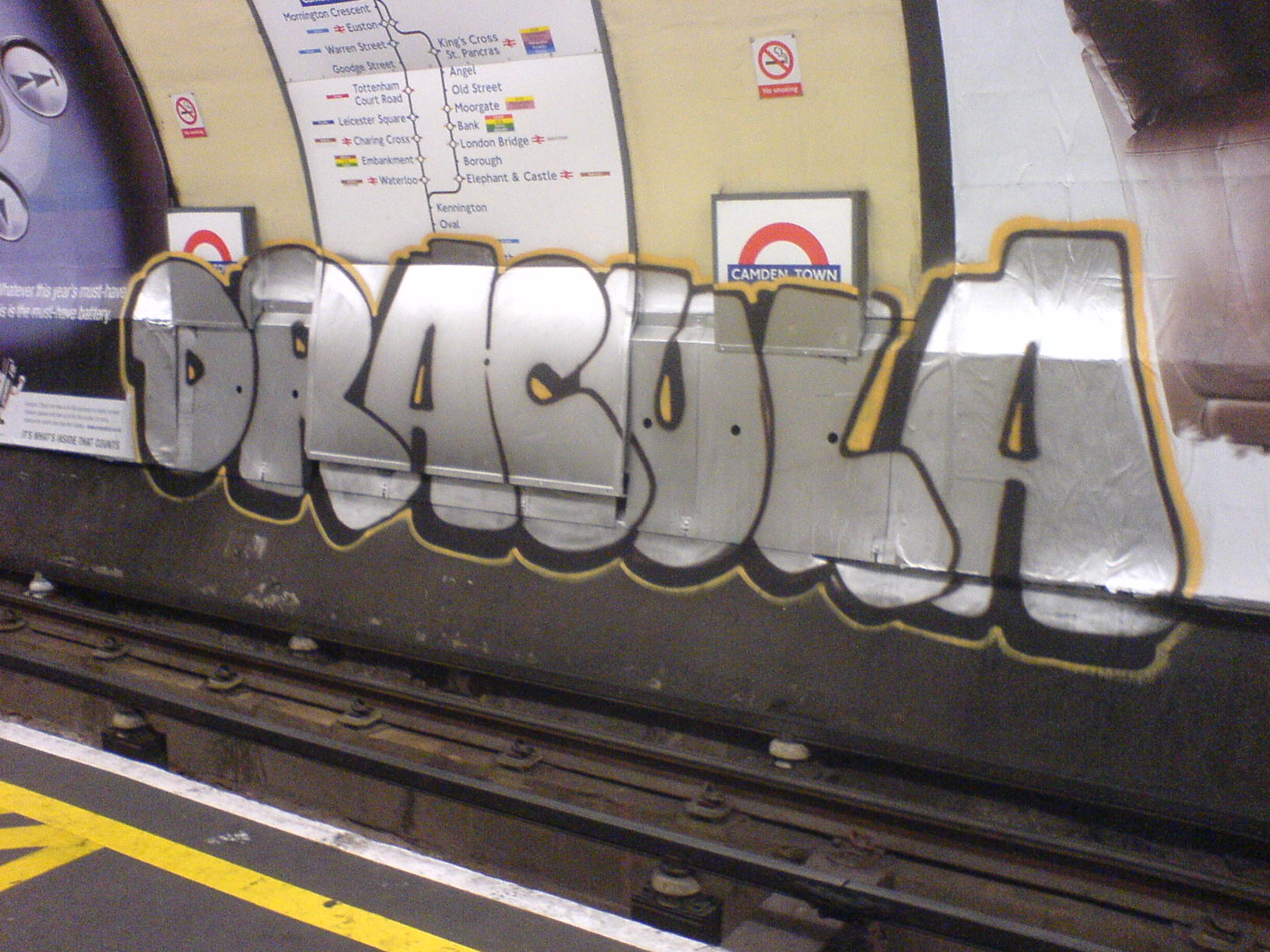 silverpiece bombing in a subway-station, camden town, london, england, uk, europe